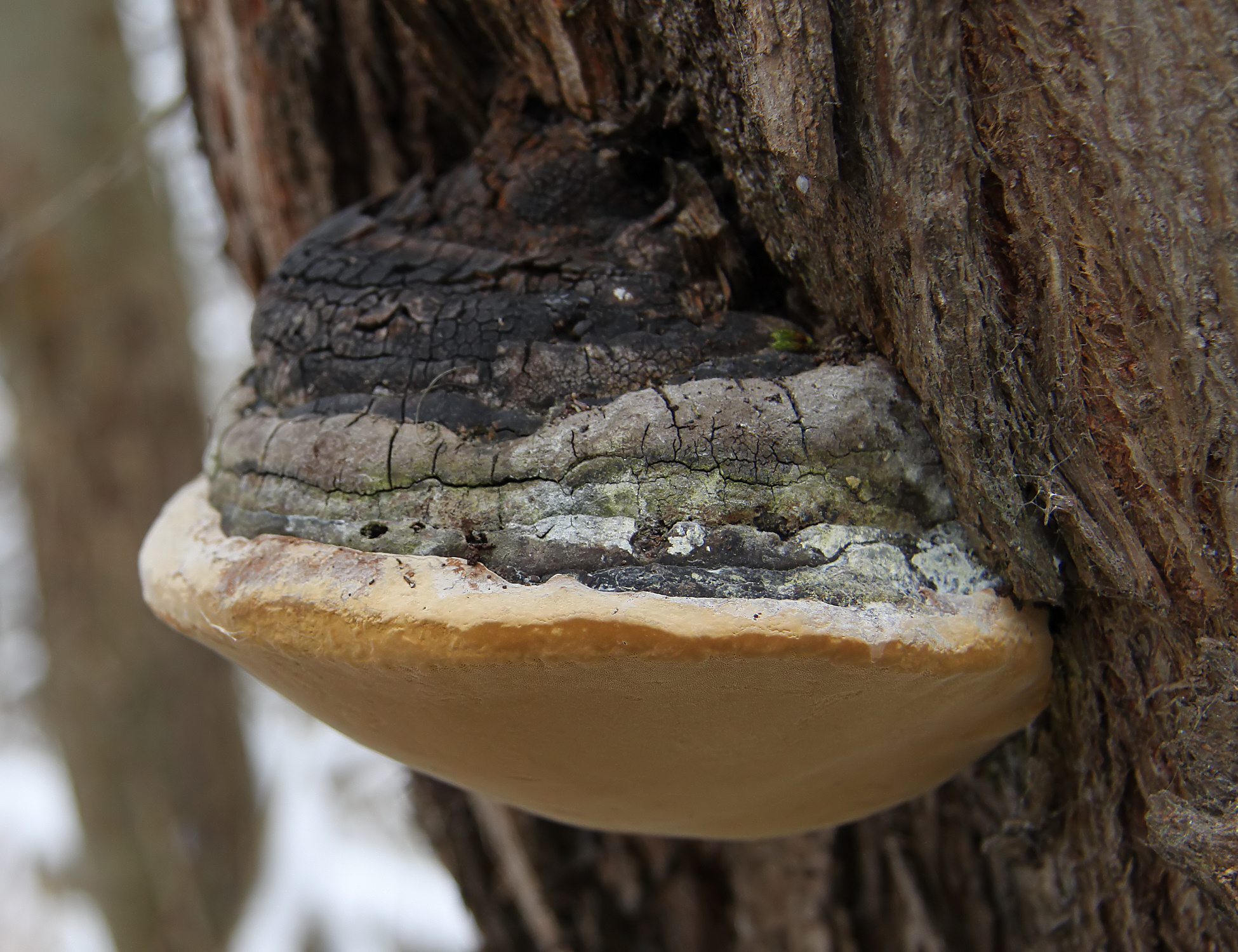 Phellinus igniarius in natural monument Tůně u Hájské near Hájské village, Strakonice District, Czech Republic